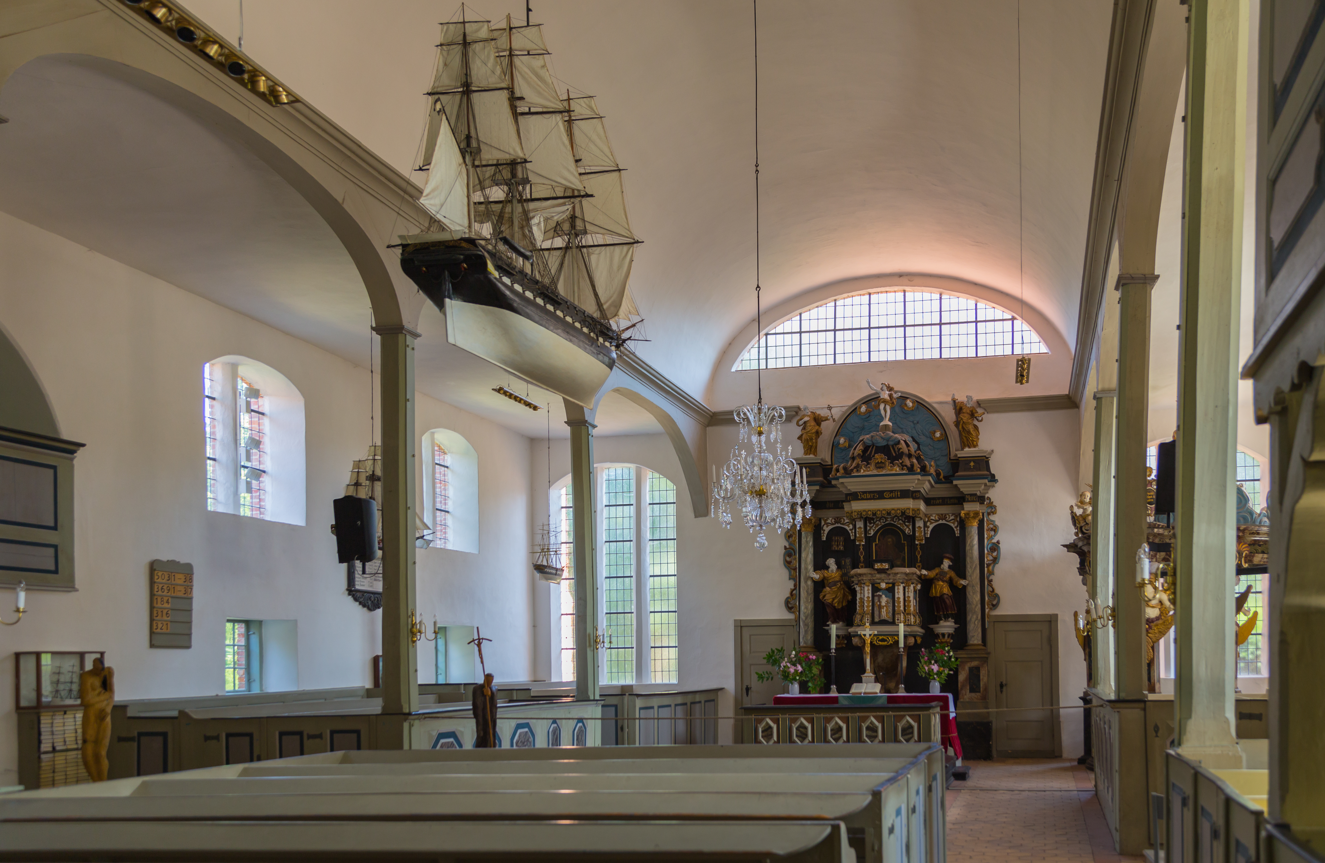 Interior of the Protestant Seamen's Church (Seemannskirche) in Prerow, Landkreis Vorpommern-Rügen, Mecklenburg-Vorpommern, Germany.